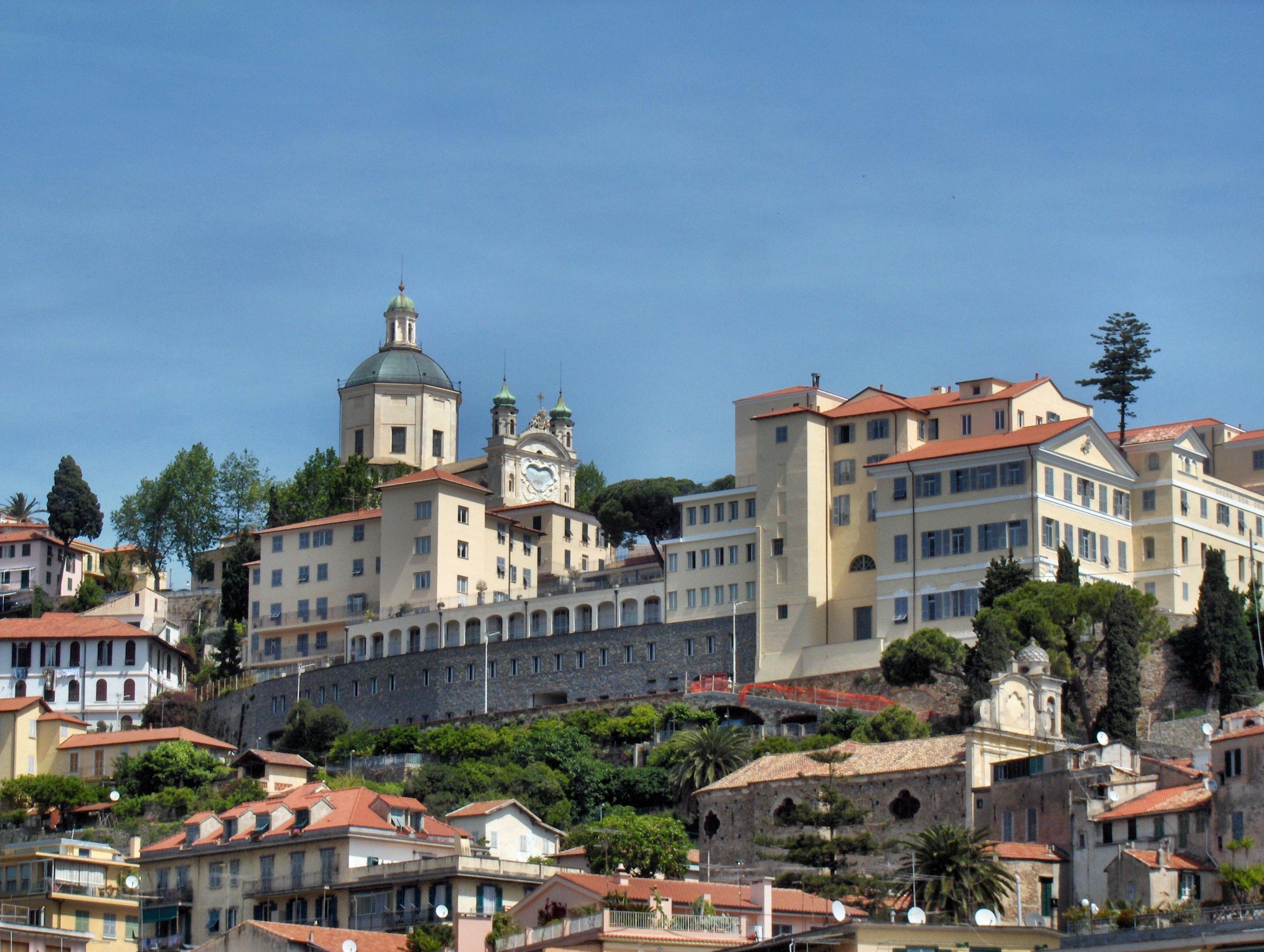 View on the historic center of Sanremo, Italy